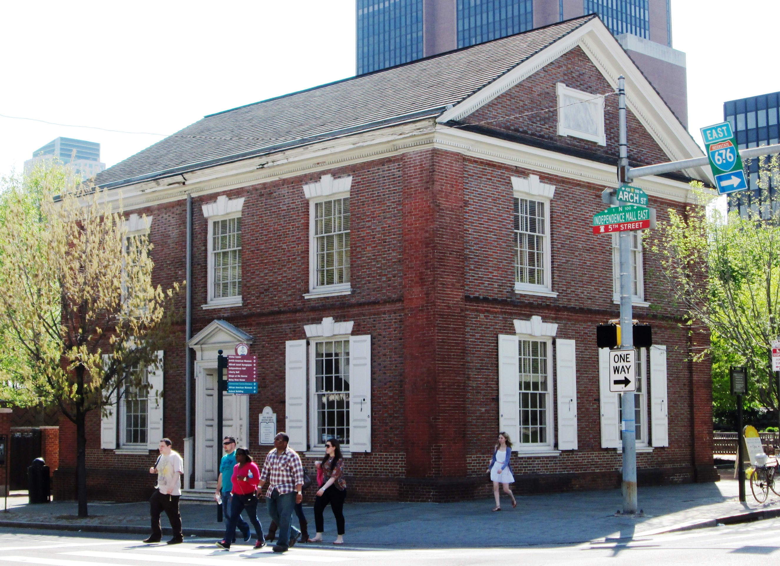 The Free Quaker Meetinghouse is a historic Quaker meeting house at the southeast corner of 5th and Arch Streets in the Independence National Historical Park in Philadelphia, Pennsylvania. It was built in 1784.